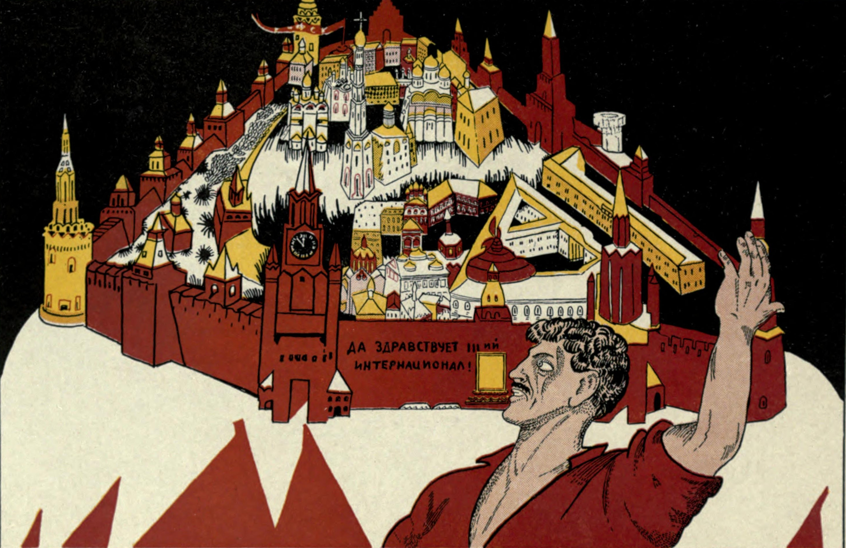 Soviet poster featuring the Kremlin. The slogan on the wall says: "Long live the Third International!"